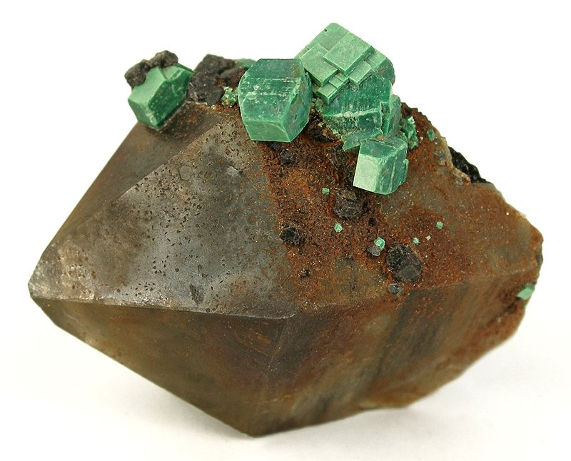 Metazeunerite, Quartz (Var.: Smoky Quartz) Locality: Erongo Mountain, Usakos and Omaruru Districts, Erongo Region, Namibia (Locality at ) Size: 3.4 x 2.8 x 2.0 cm. A superb specimen featuring sharp crystals of metazeunerite to 7mm perched on a complete smoky quartz crystals. They come from a small pocket found in 2003 in granite, East of Tubussis (see NAMIBIA book, page 650). This specimen is in fact illustrated in the magnum opus NAMIBIA book which cam out last year in Germany (page 650, bottom). Ex. Heini Soltau Collection.